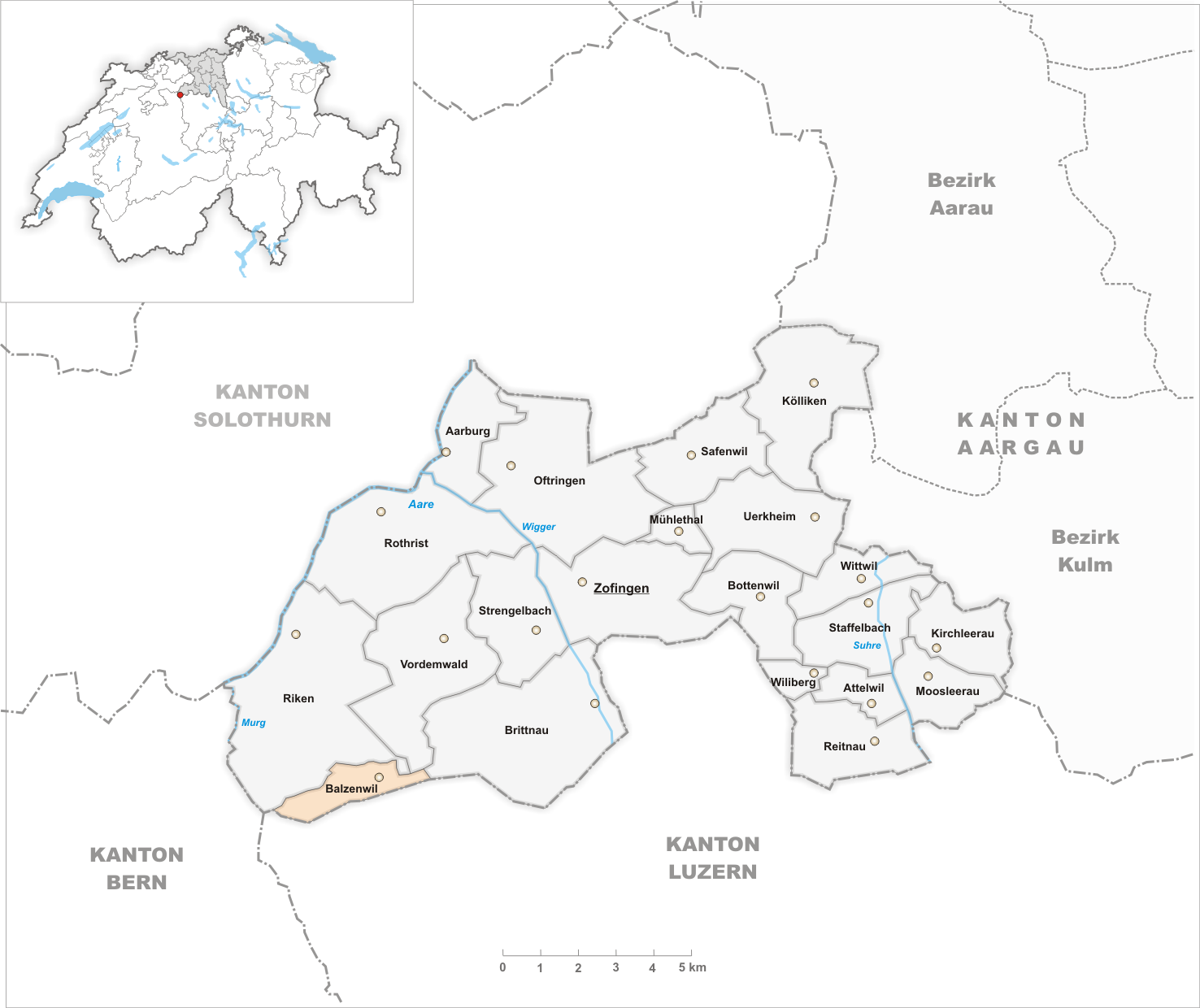 Municipality Balzenwil